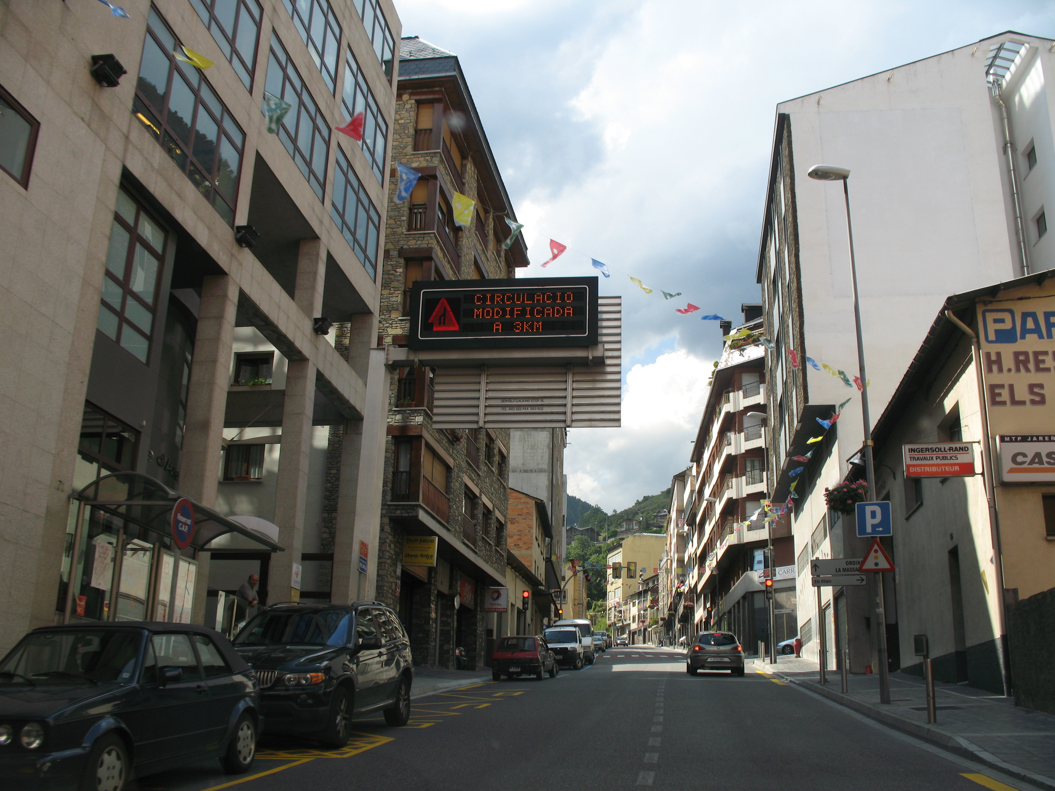 The CG-3 road of Andorra in Escaldes Engordany.